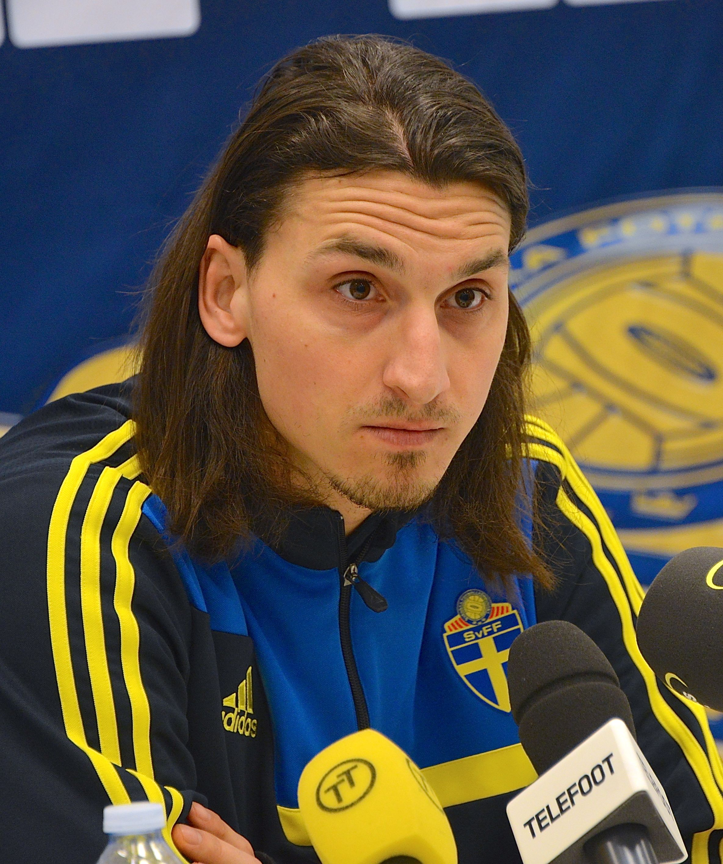 Zlatan Ibrahimović at a press conference March 21, 2013 before the qualifying match against Ireland.